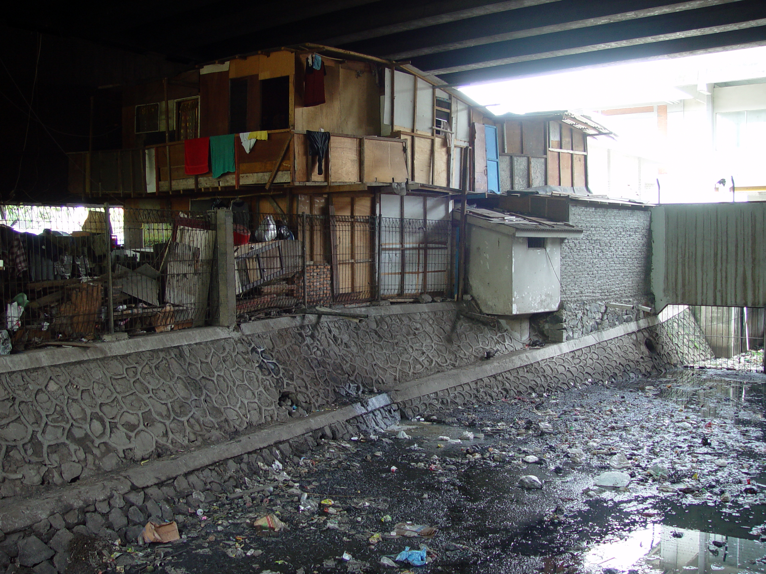 Slum homes built under a highway overpass, Jakarta Indonesia.